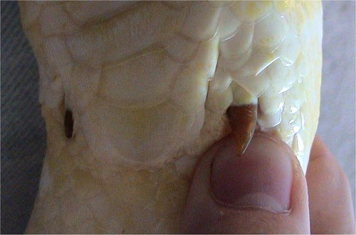 Photographer: User:Dawson